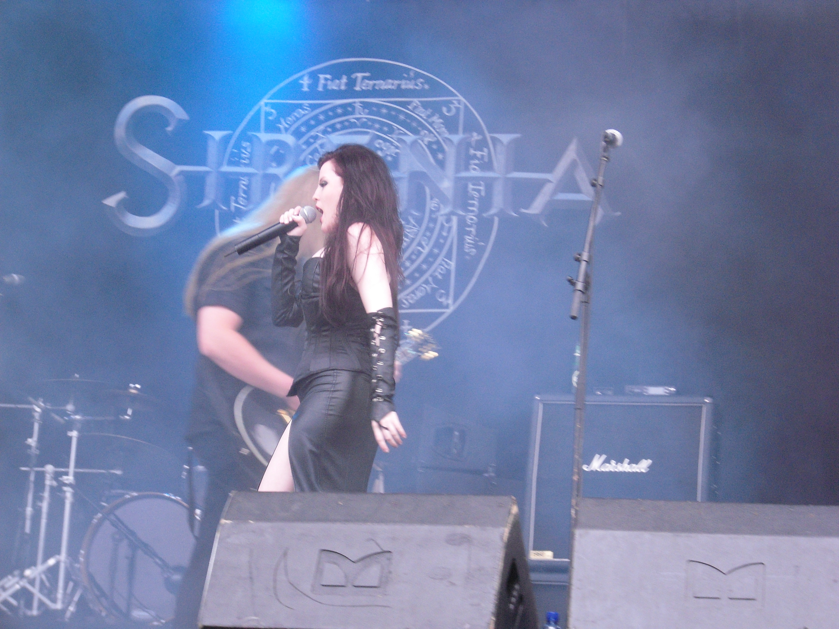 Ailyn performing with Sirenia at Norway Rock Festival in 2009